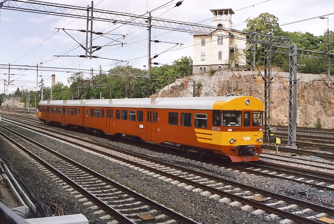 VR Class Sm2 electric multiple unit no. 6256 in Helsinki, Finland